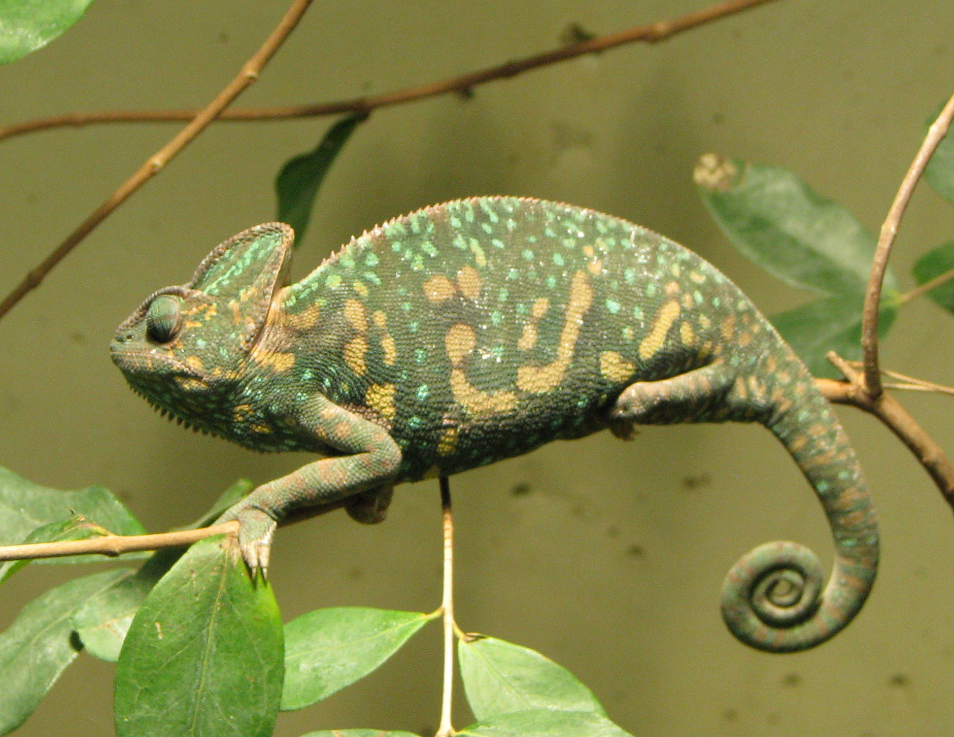 Chamaeleo calyptratus, female in Zooaquarium Berlin